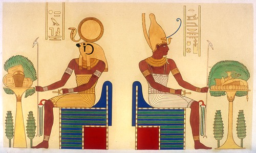 Ra-Horakhty and Atum. Scene from tomb of Ramses III. (KV11)